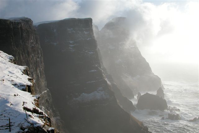 Beinisvørð north of Sumba